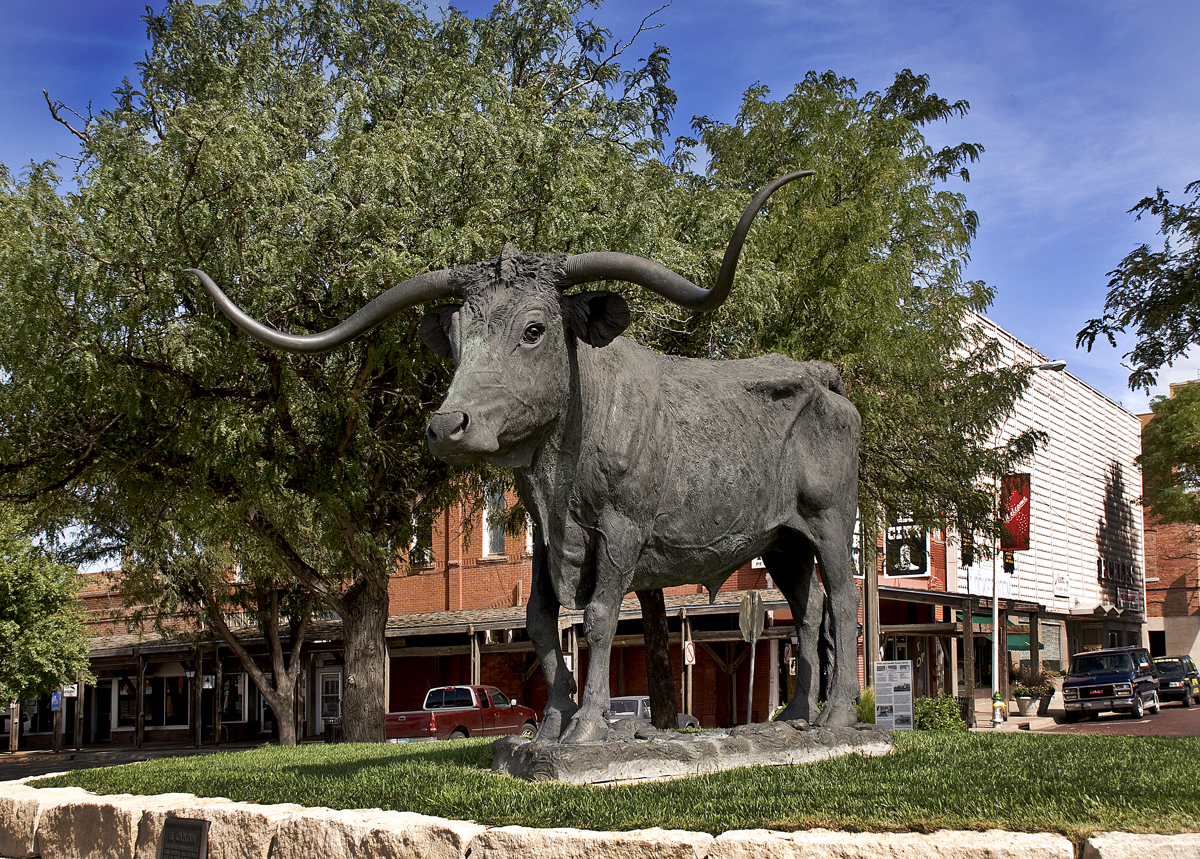 Longhorn Statue on Front Street, Dodge City, Kansas. Front Street & 2nd Avenue.